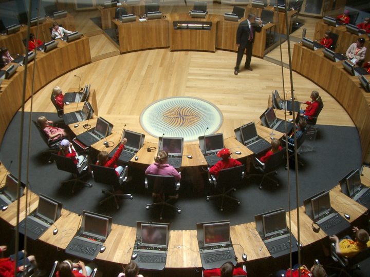 visiting Welsh Assembly